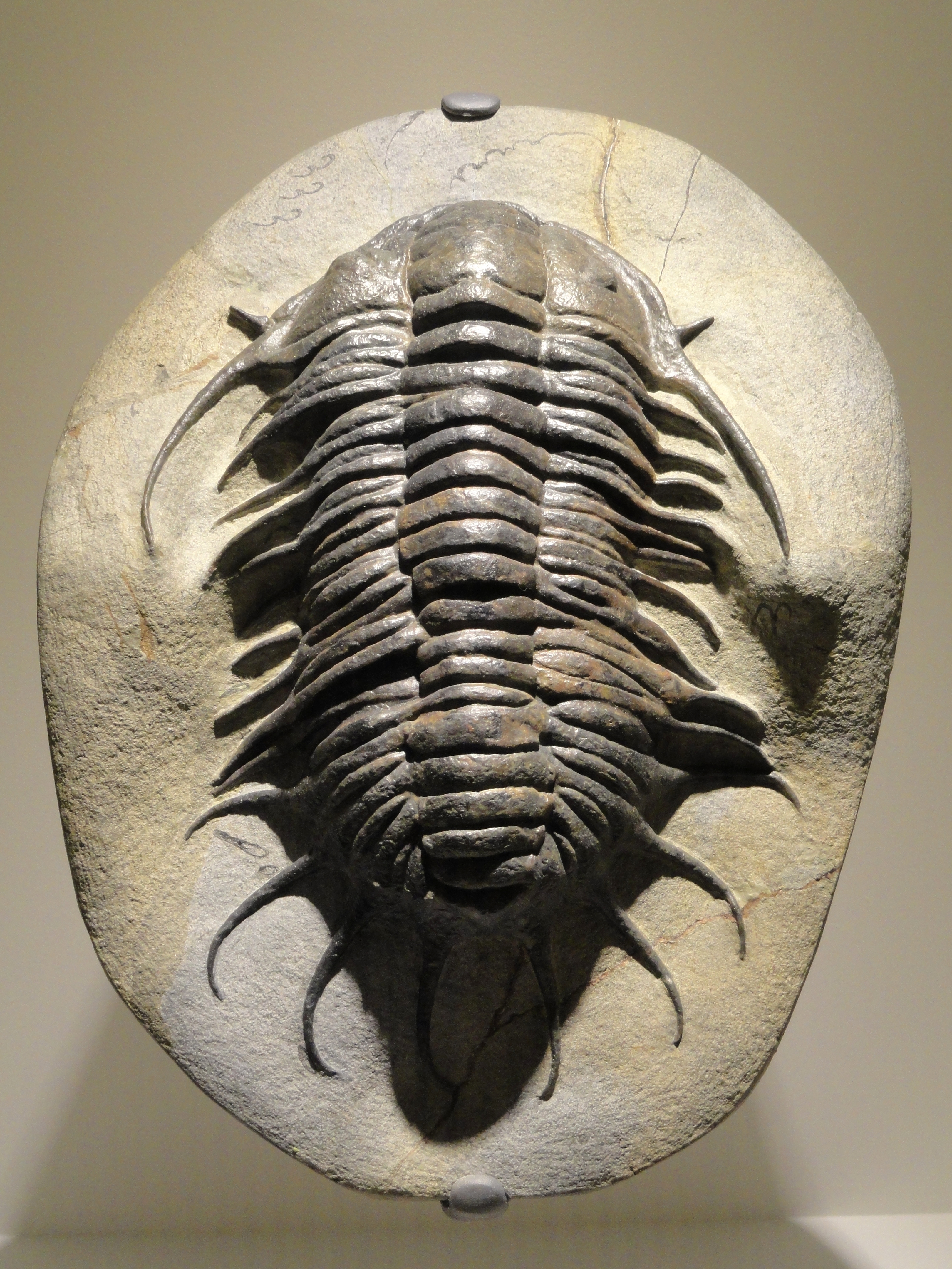 Exhibit in the Houston Museum of Natural Science, Houston, Texas, USA.